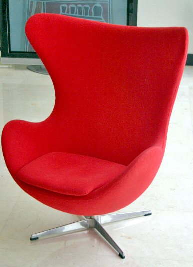 My favourite chair - The best seat in the house